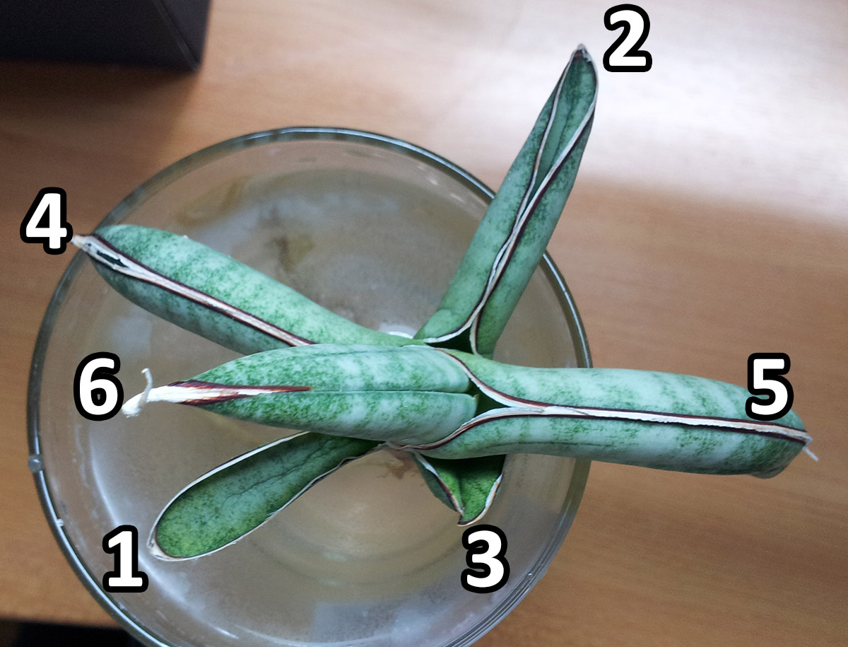 overhead view of S. eilensis showing change in leaf morphology as plant grows. Leaves are numered 1-6 in order from oldest to newest leaf.